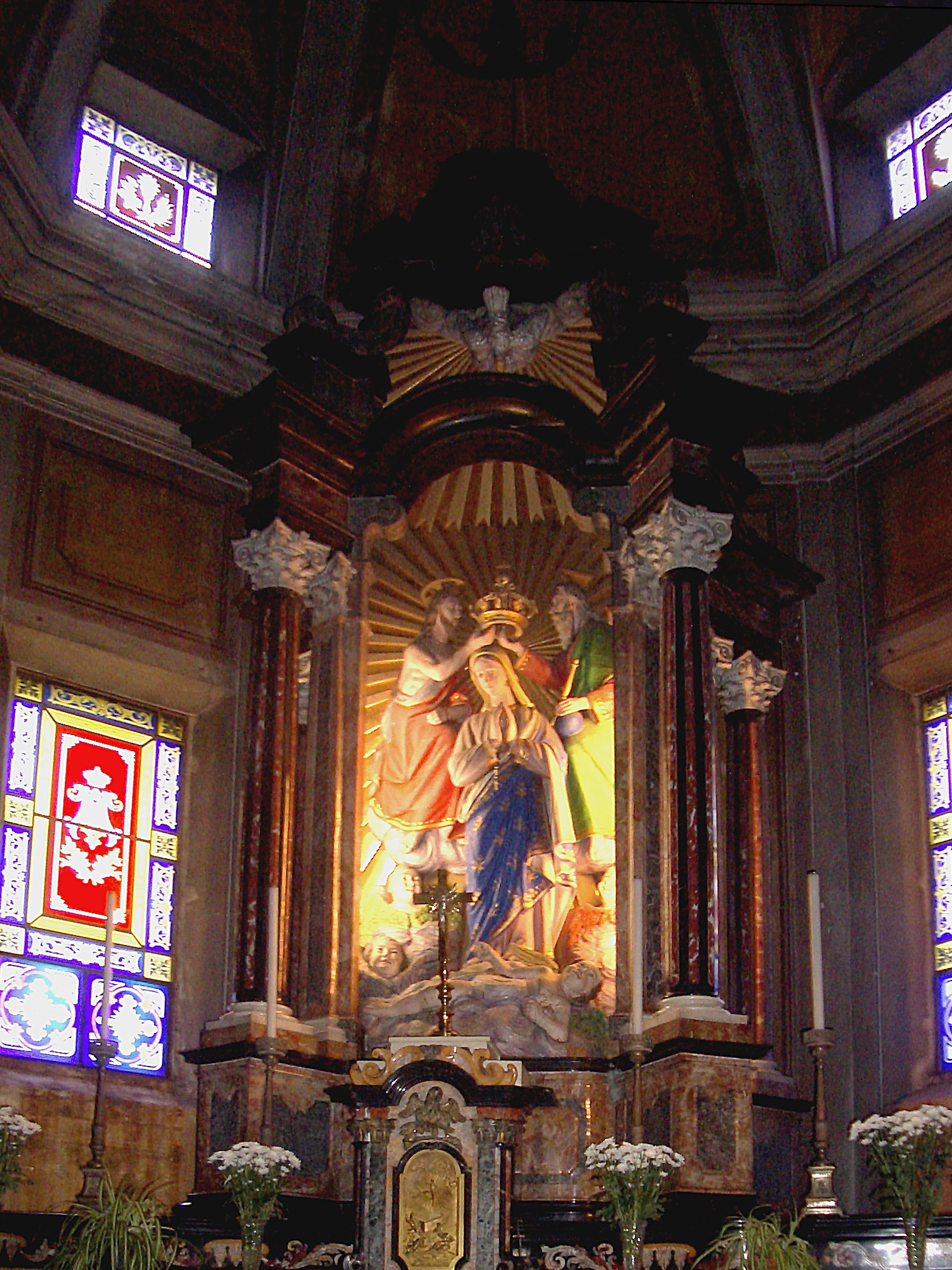 Sacro Monte of Ossuccio, the Sanctuary of the Beata Vergine del Soccorso, the high-altar with the sculptural group of the Crowning of the Virgin Mary